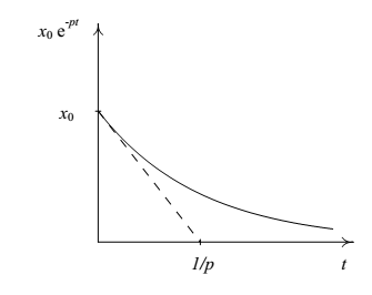 Decaimento exponencial de uma substância radioativa.